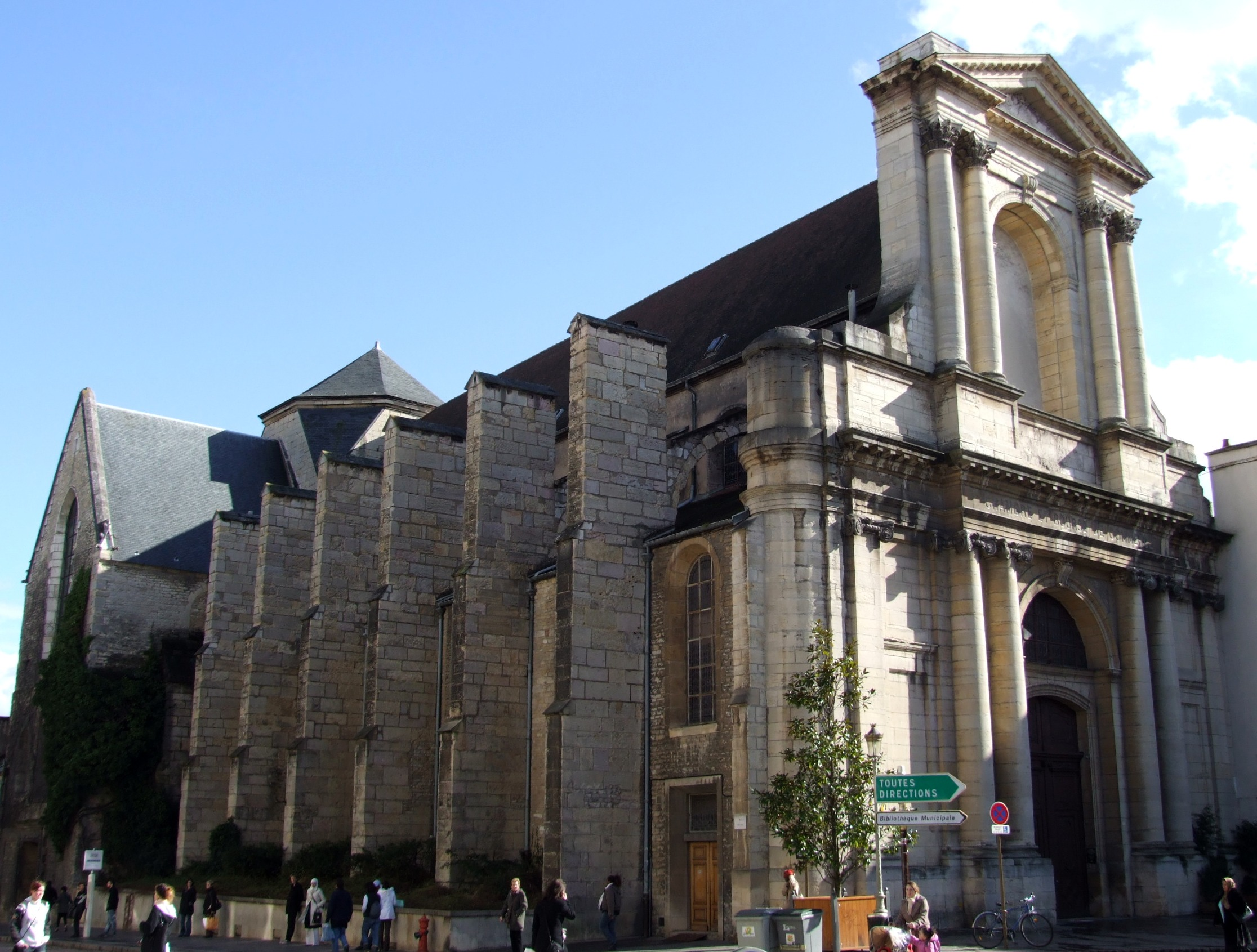 Dijon, Burgundy, FRANCE